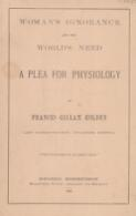 Woman's ignorance and the world's need: A Plea for Physiology, written by Frances GIllam Holden. Subjects: women, education, health education